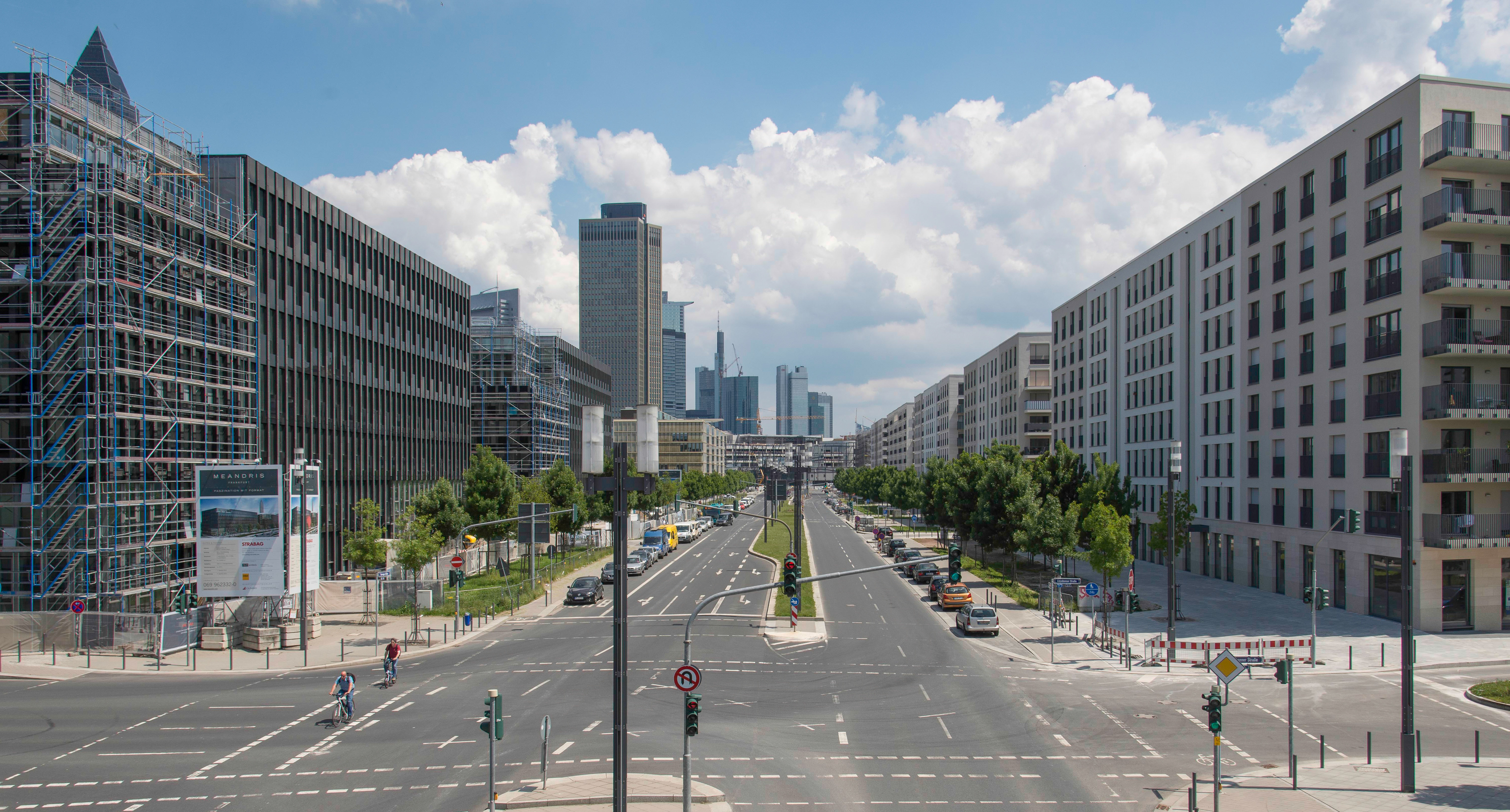 Eastern part of the Europa-Allee in the Europaviertel in Frankfurt am Main. View from the Emser Bridge to the East (June 2013).